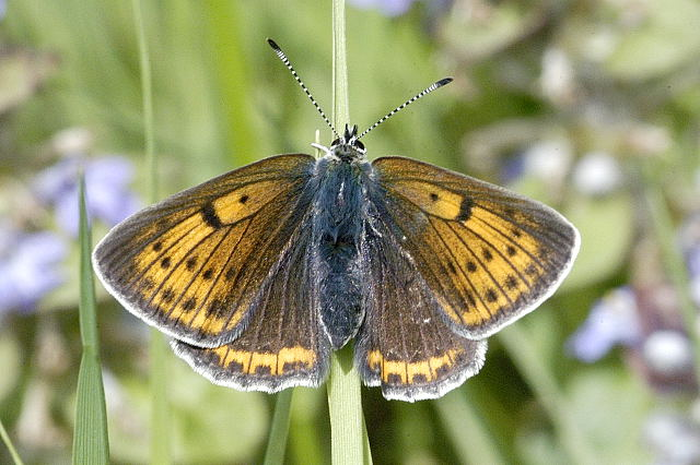 Picture taken in Commanster, Belgian High Ardennes . Species: Lycaena hippothoe